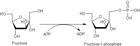 Reaction catalysed by the enzyme fructokinase. Fructose is converted to fructose 1-phosphate.